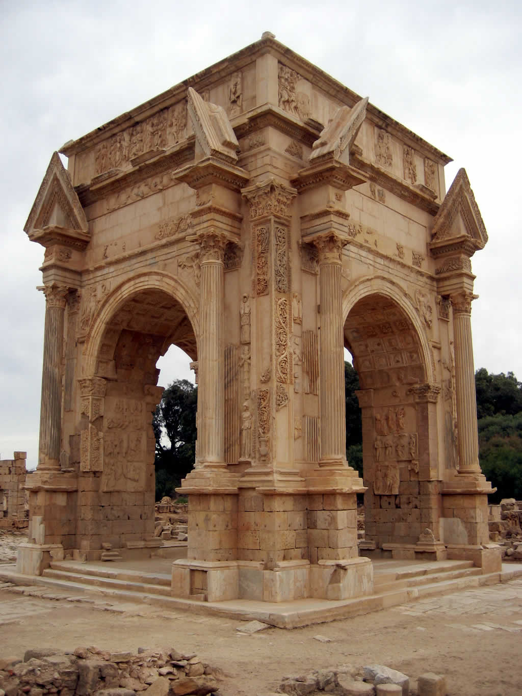 The Arch of Septimus Severus at Leptis Magna, east of Tripoli.